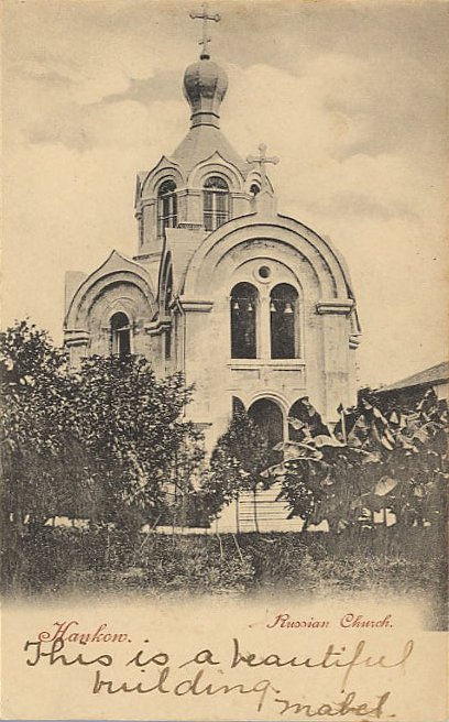 Hankou Orthodox Church in one time